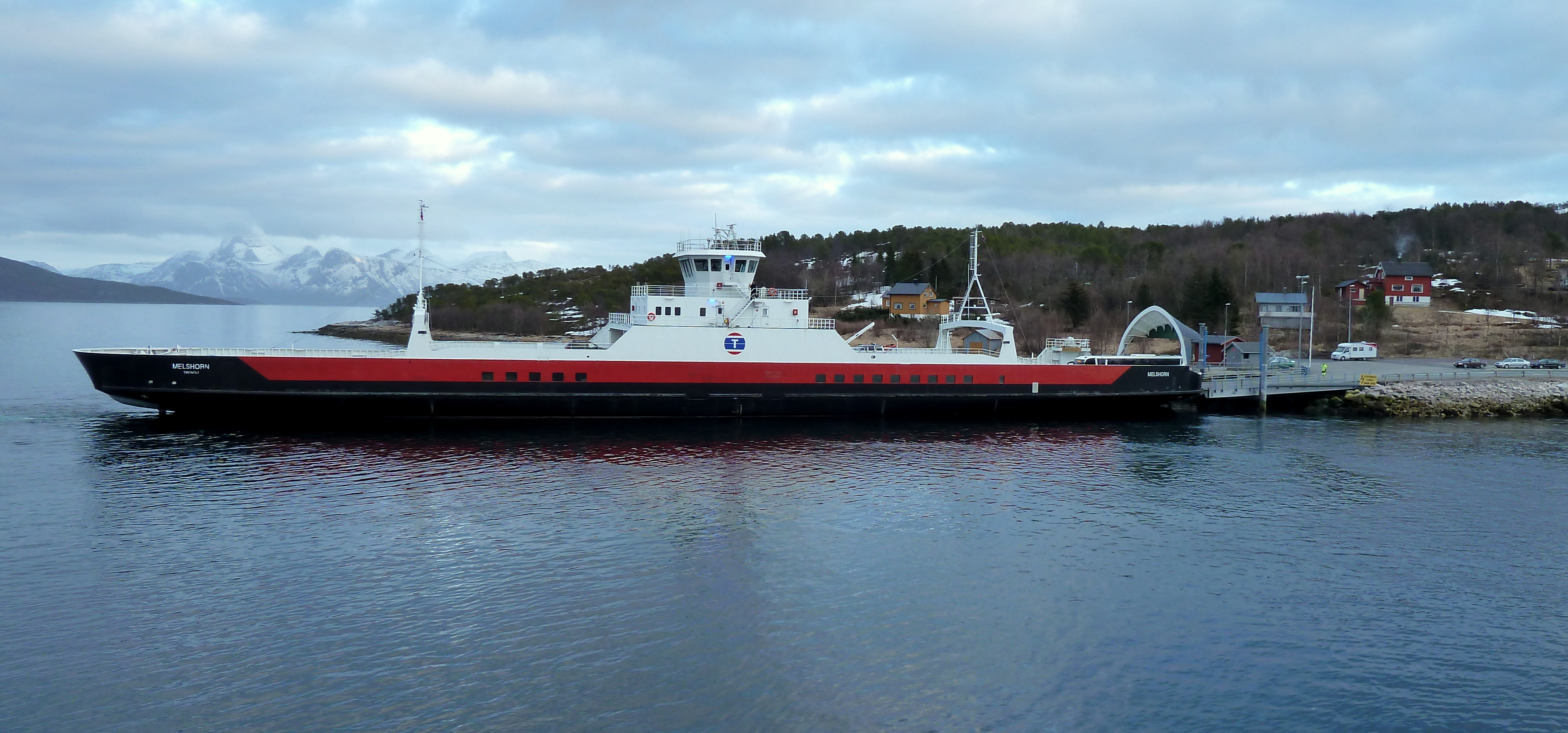 The Norwegian car ferry MF «Melshorn», owned by Torghatten Nord, in ferry dock at Bognes, Nordland, crossing the European Road 6 ferry connection.